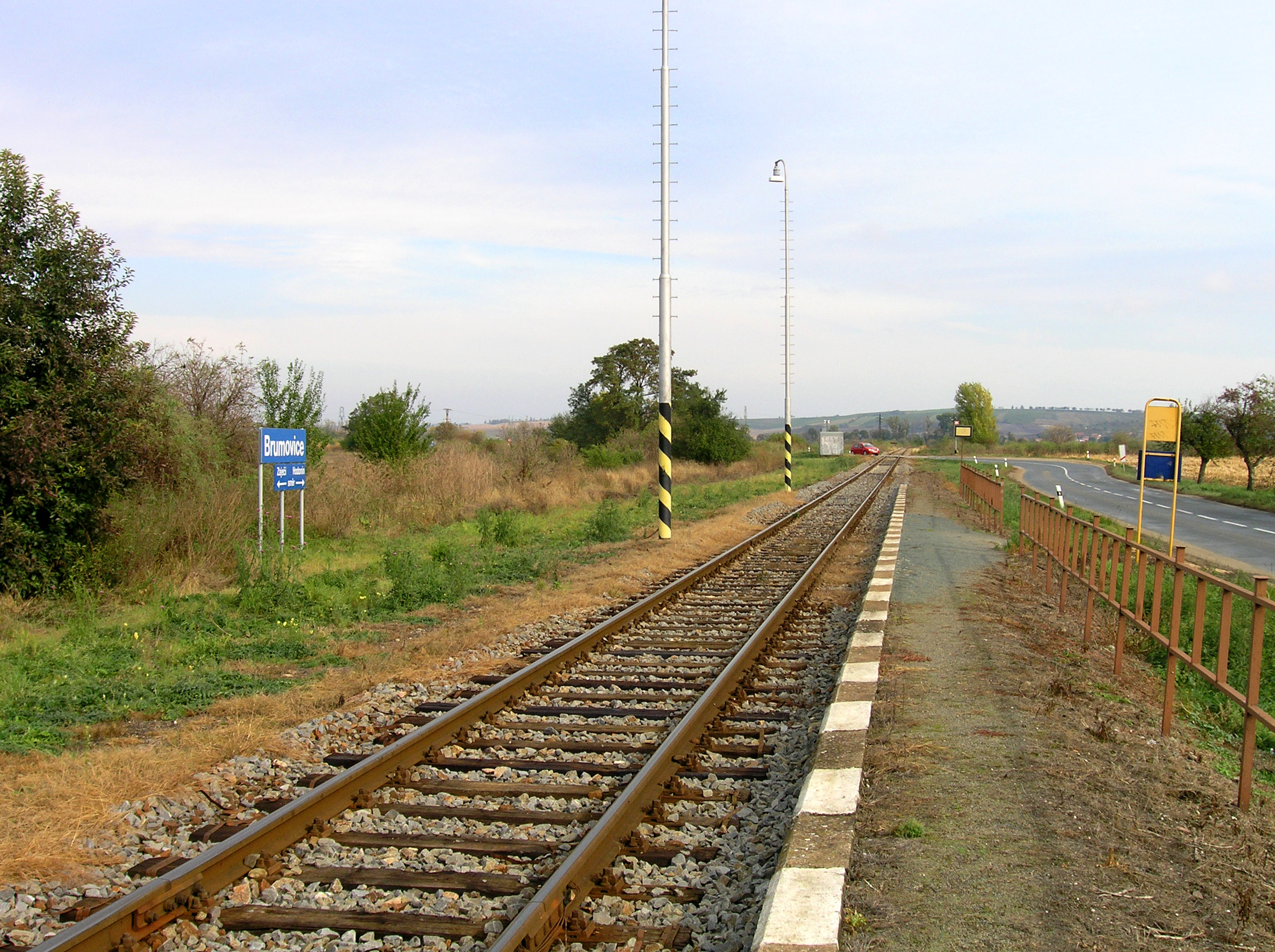 Roadside station of Brumovice, Czech Republic